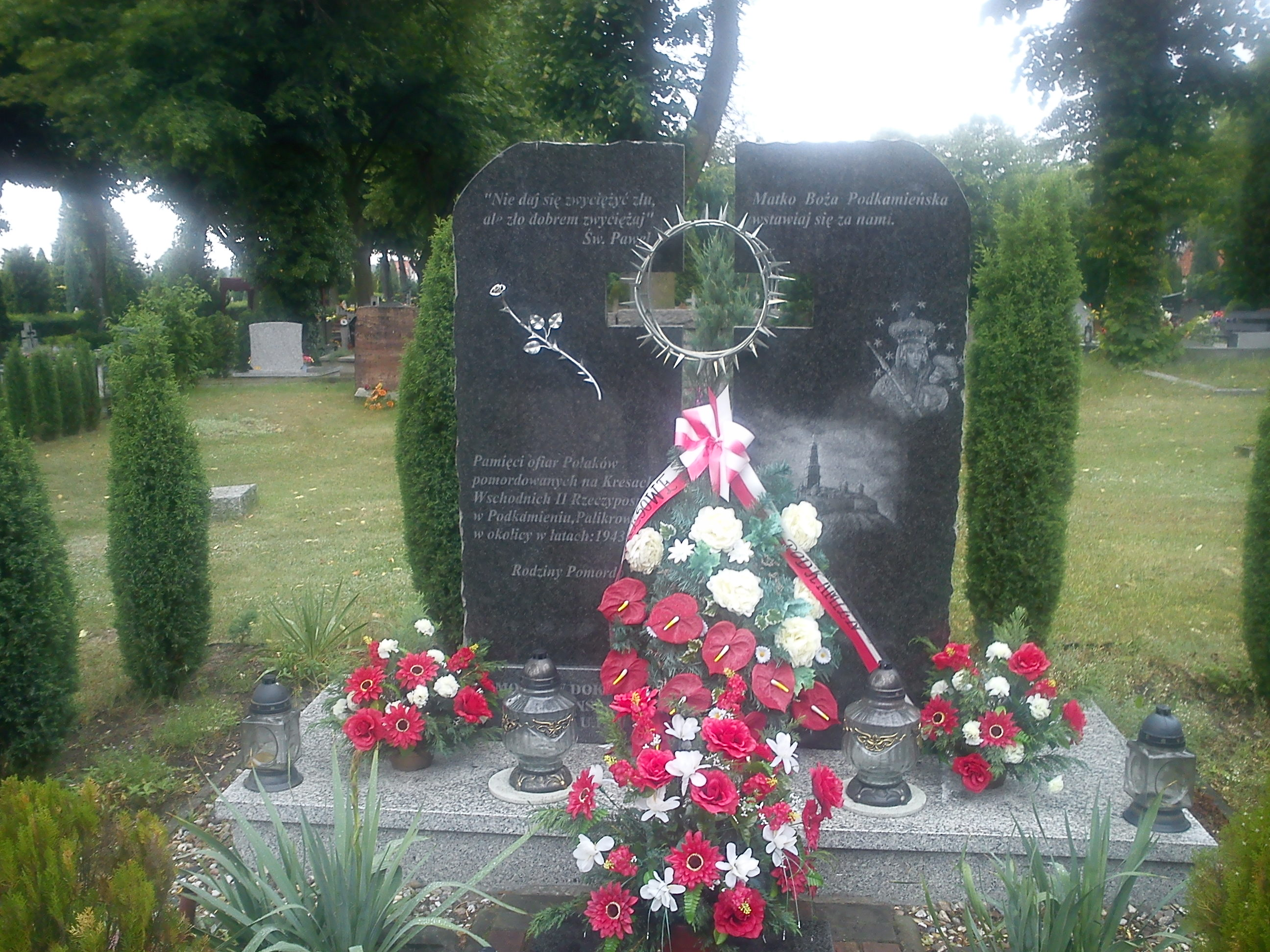 Monuments to victims of OUN-UPA in Wołów (Poland)